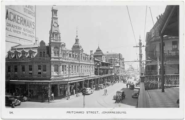 Pritchard St, Johannesburg, South Africa, c1910. Photograph of original real photo bw postcard c1910.